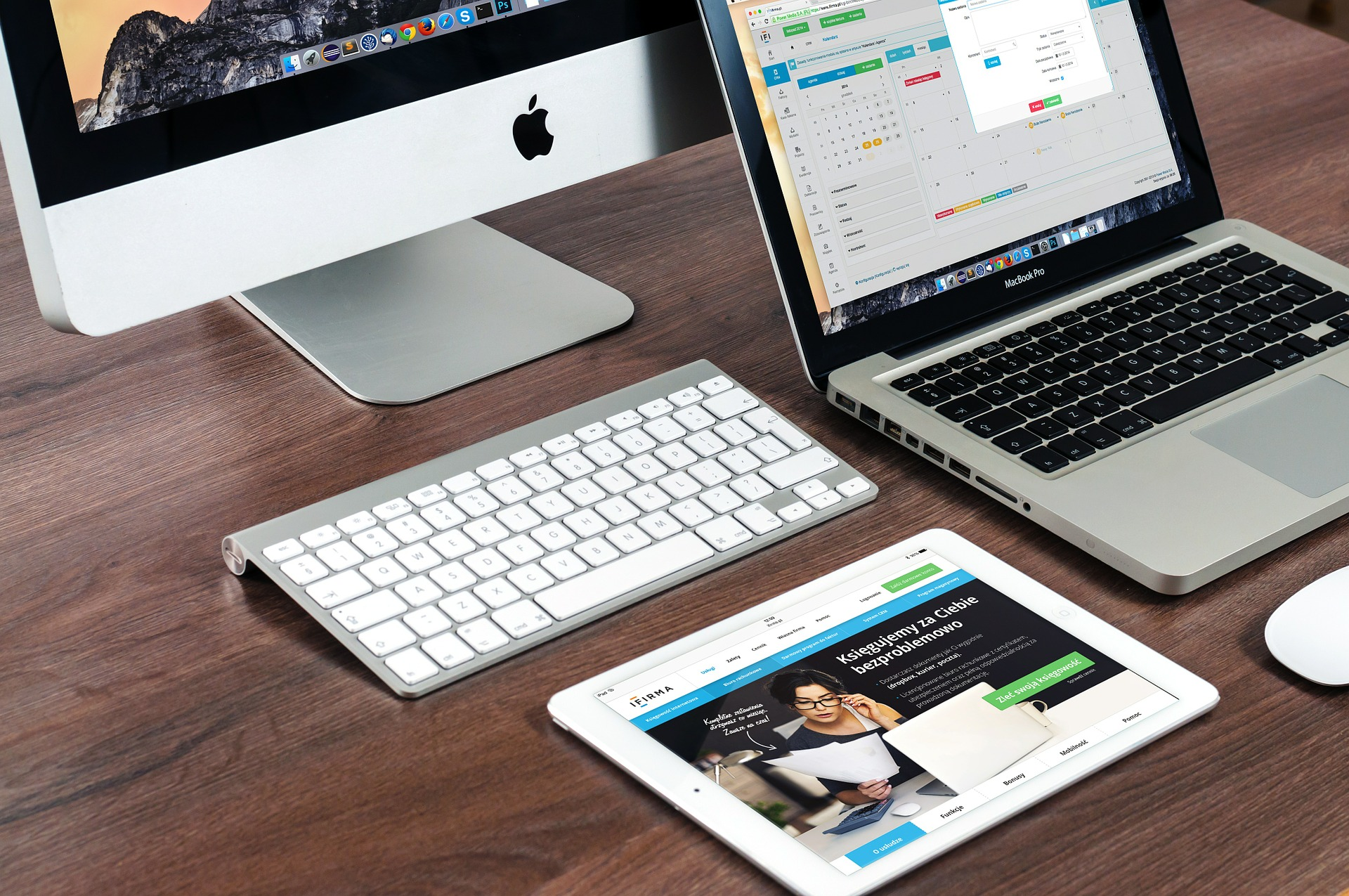 Paperless work desk with an iPad, iMac and a MacBook